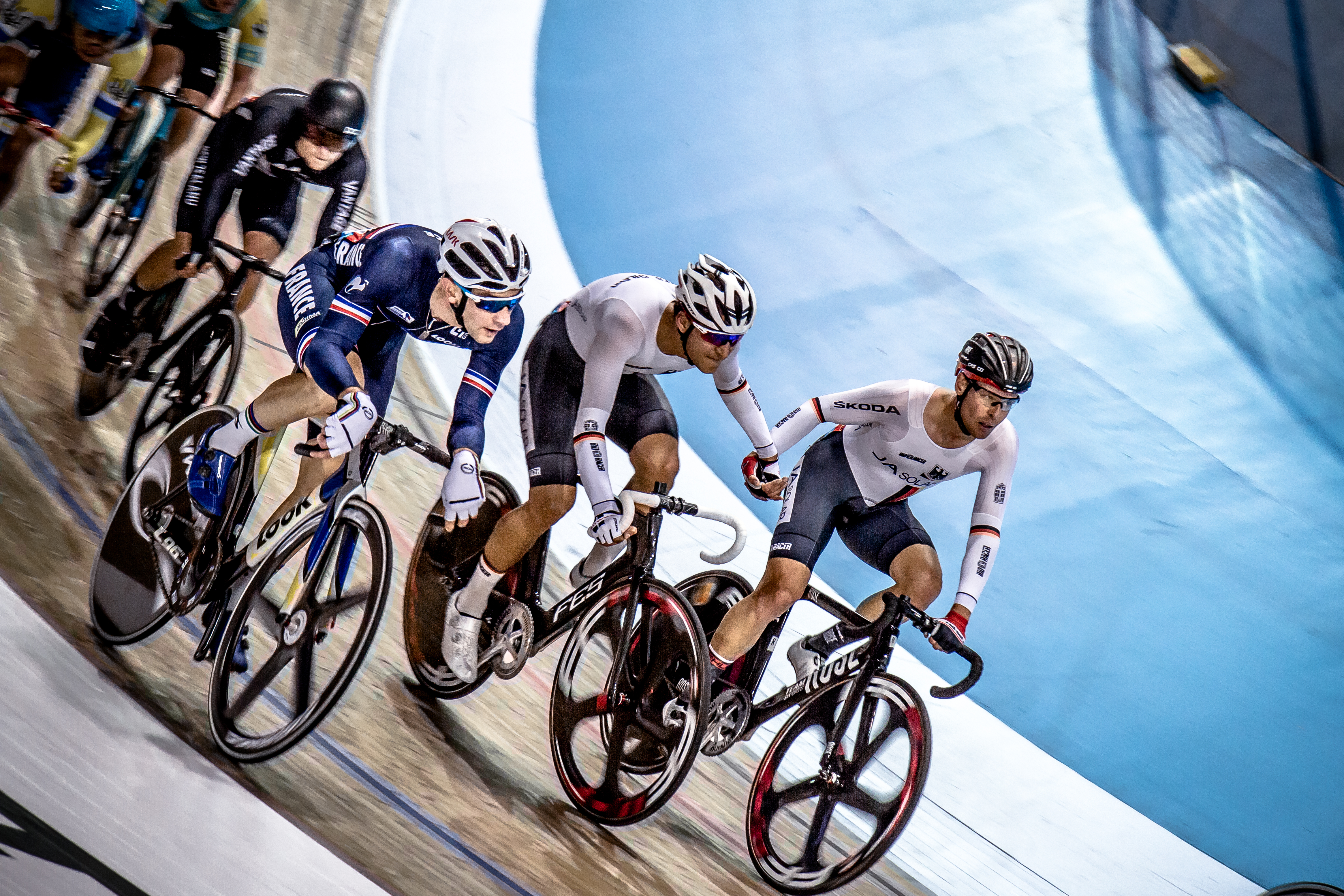 Leif Lampater and Leon Rohde of Germany. Men's 30km Madison. UCI Track World Cup, Milton, Ontario, Canada. 2017.